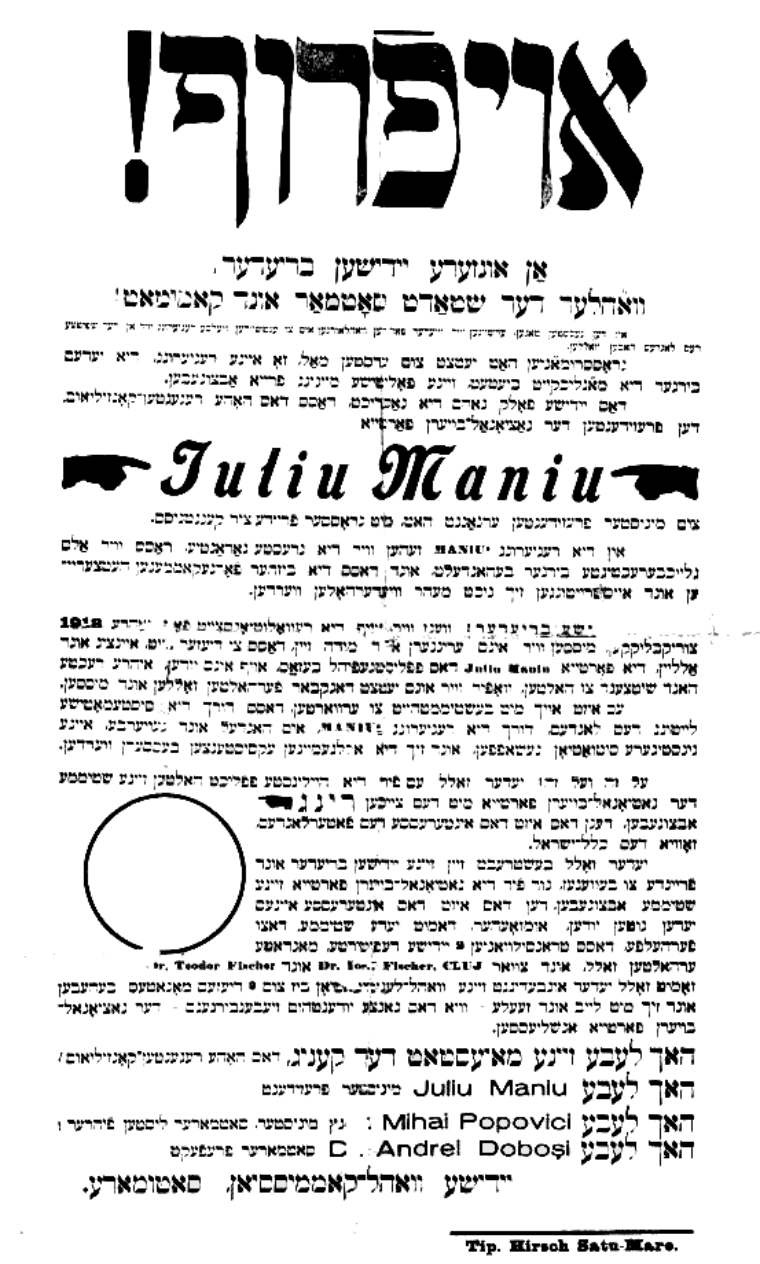 Yiddish poster canvassing Jewish support for the Romanian National Peasants' Party list in Satu Mare; Iuliu (Juliu) Maniu advertised as the top candidate, with Mihai Popovici and Andrei Doboși on less eligible positions.